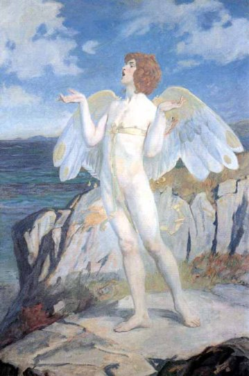 A painting of a Victorian era description of Áengus mac Óg, depicted here with swan wings.